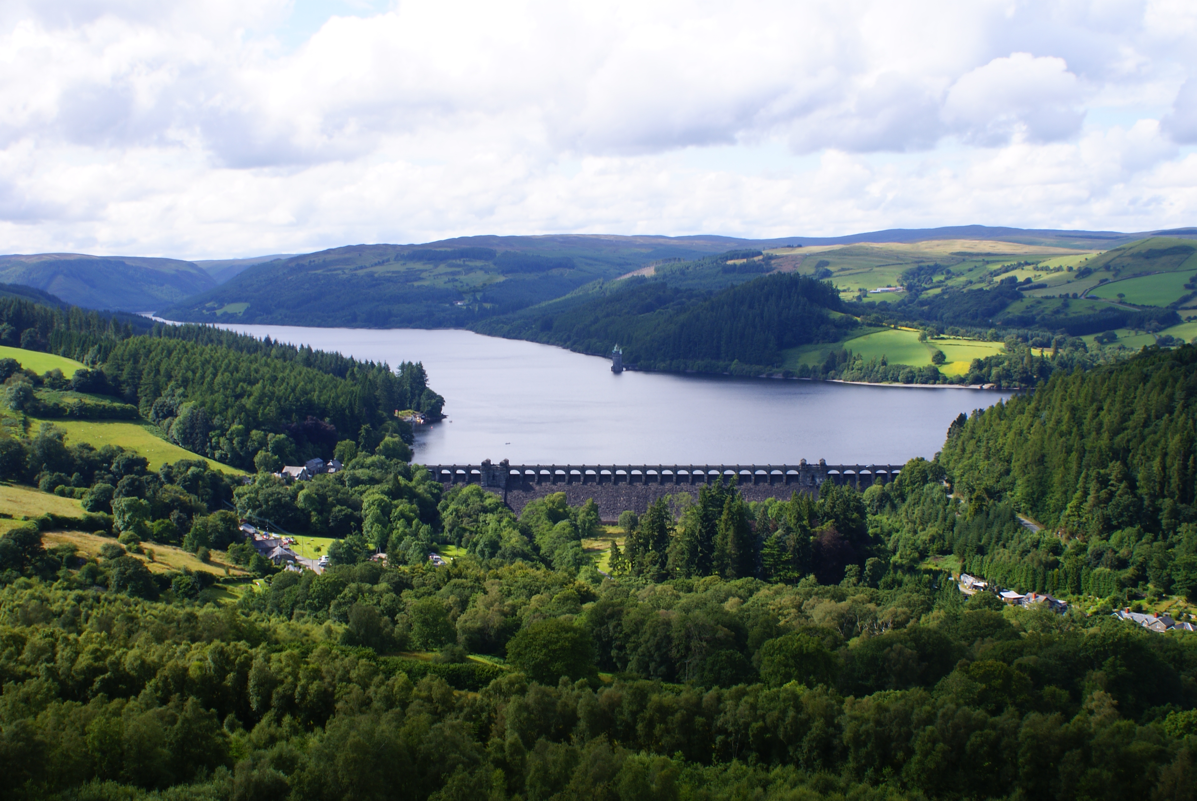 Lake Vyrnwy and Dam in Powys, Wales. From the summit of Craig garth-bwlch. Showing the village of Llanwddyn, much of the lake looking north west, the dam and the straining tower. This photo was taken on 25/07/09 at 16:23 by Sean Hattersley.